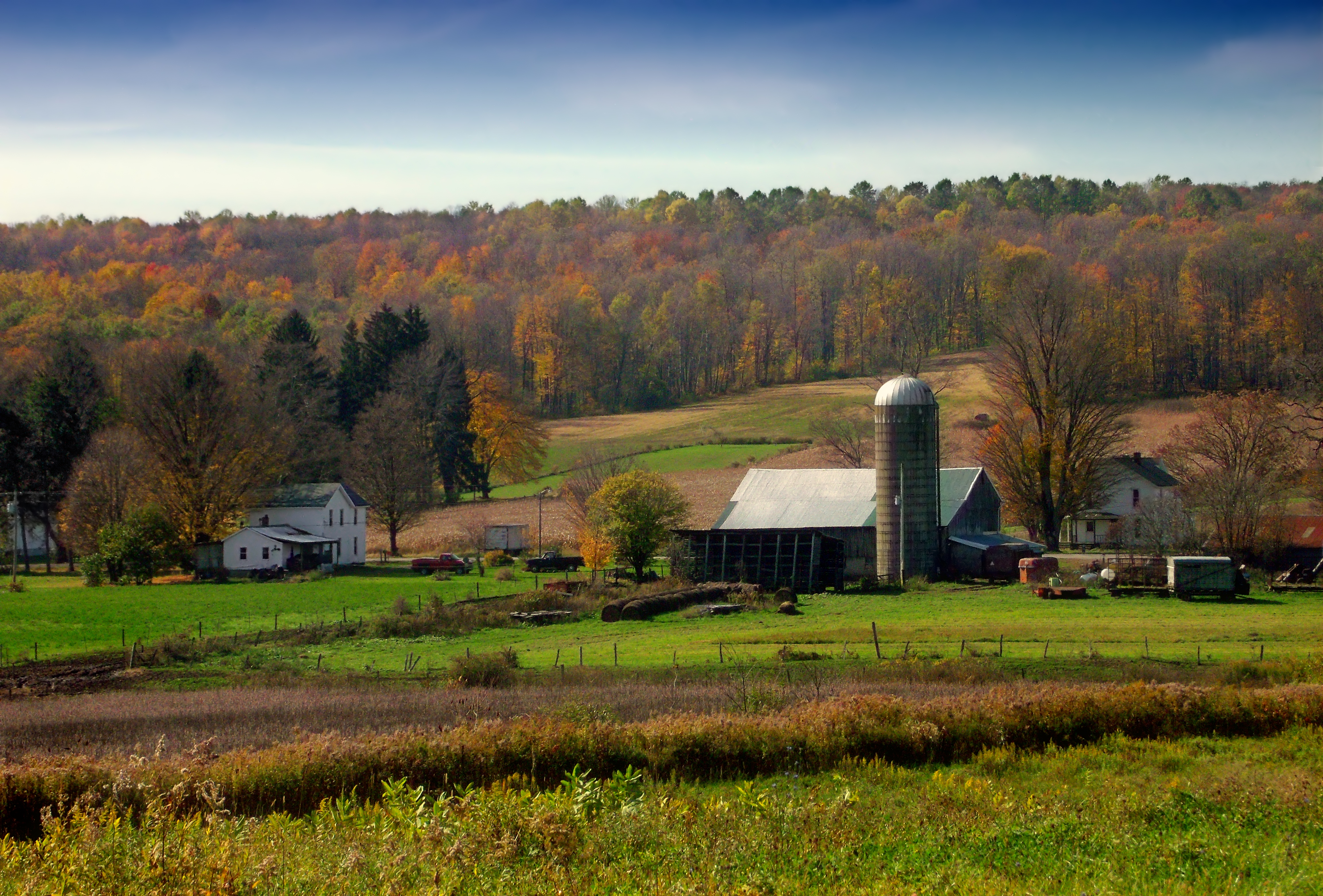 Farmstead, Washington Township, Erie County. Composed of glacial till, drumlins in this area form elongated hills blanketed with farms and forest.